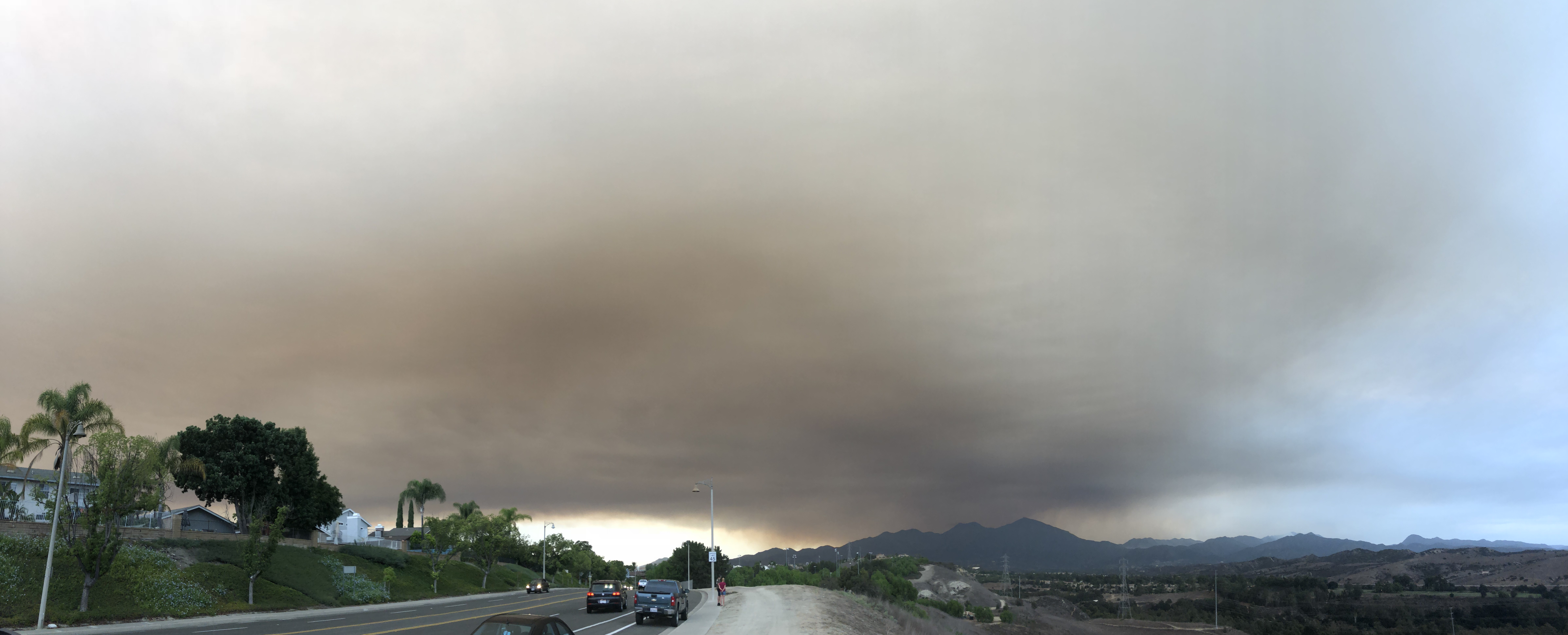 Panoramic photo taken in Mission Viejo in Orange County, near La Paz Rd. and Olympiad, on August 9, 2018. Photo taken at Sunset shortly before fire doubled in size.